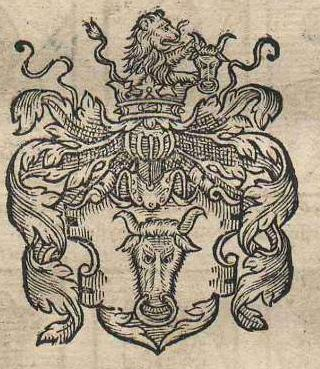 Wieniawa coat of arms by B. Paprocki, published in "Gniazdo cnoty..